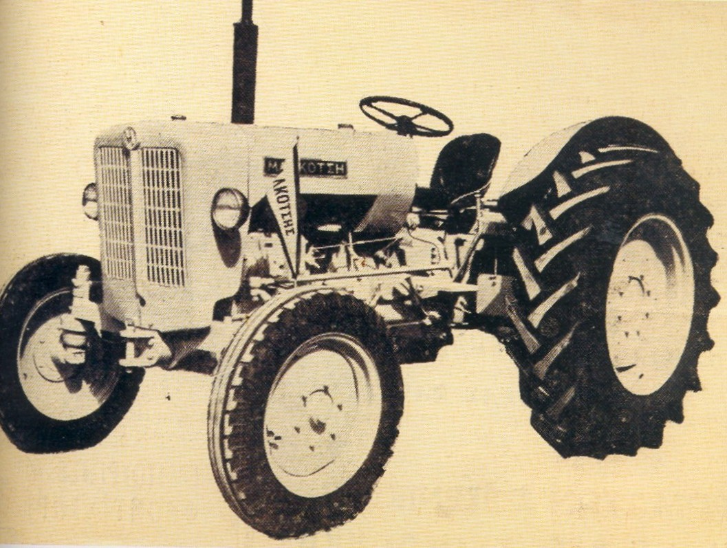 Image of a Malkotsis EM-4 tractor from an old company advertisement, published in my book "Made in Greece" (Typorama, Patras, 2003).